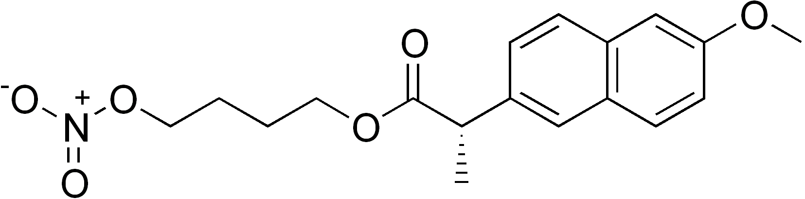 chemical structure of naproxcinod